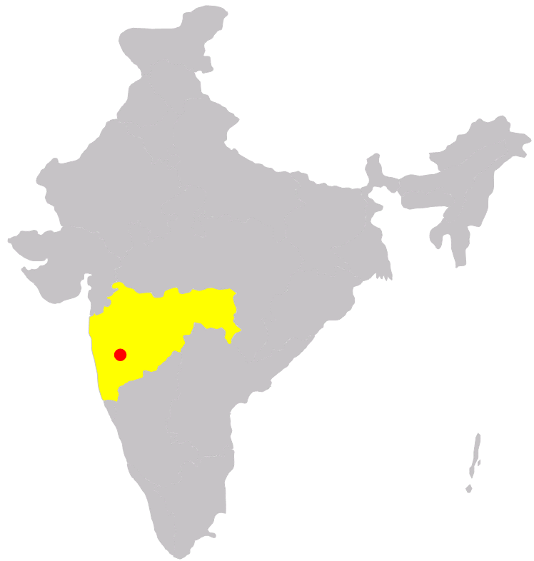 position of Pune in India